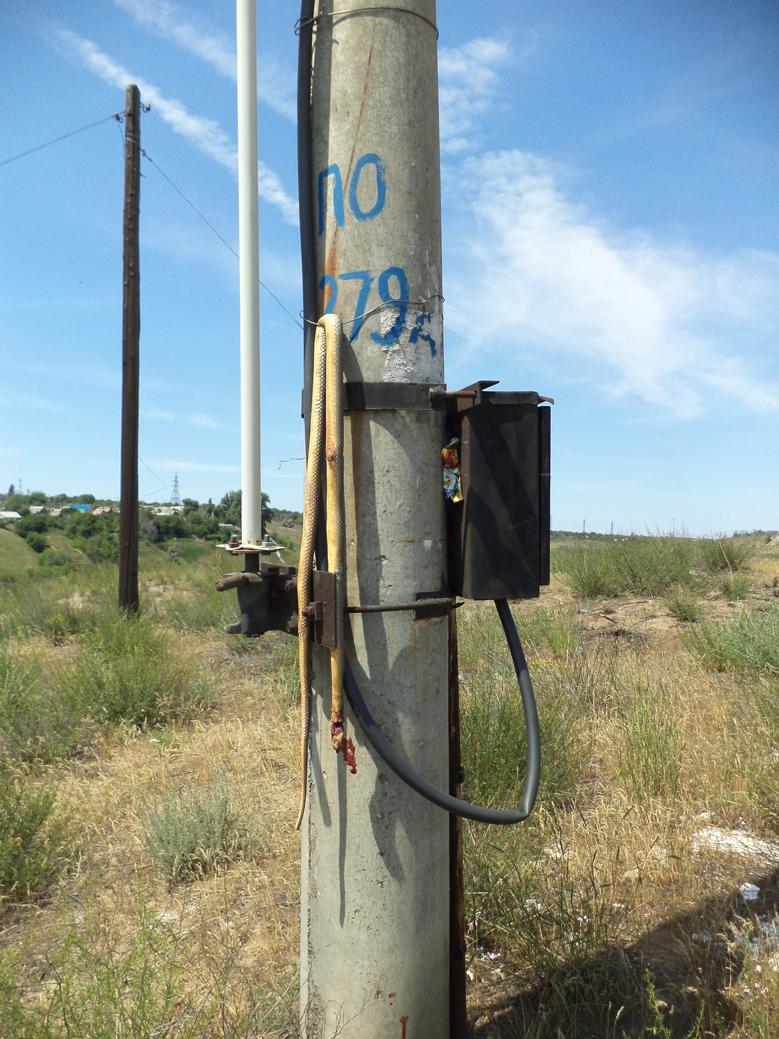 Dolichophis caspius